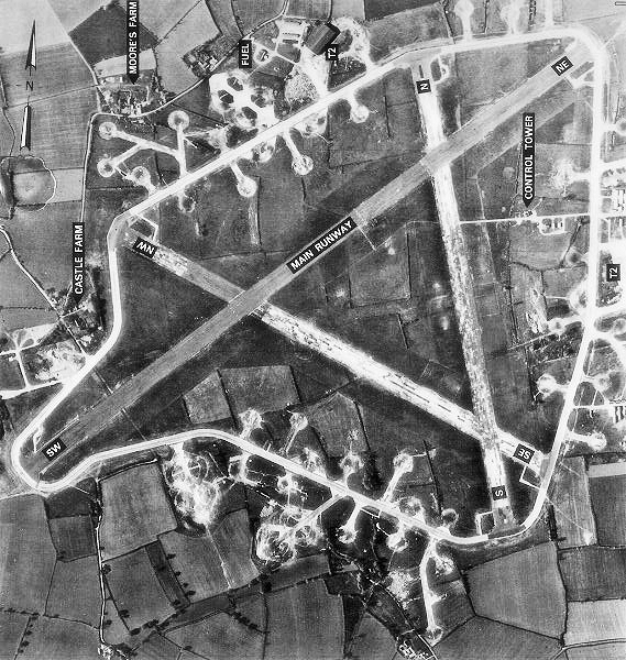 Aerial photograph of Rattlesden Airfield, England. NOTE : This version is rotated to place North approximately at top. For original version with East approximately at top see File:Ratt-7may46-original.jpg.